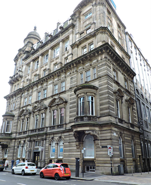 The Merchants' House